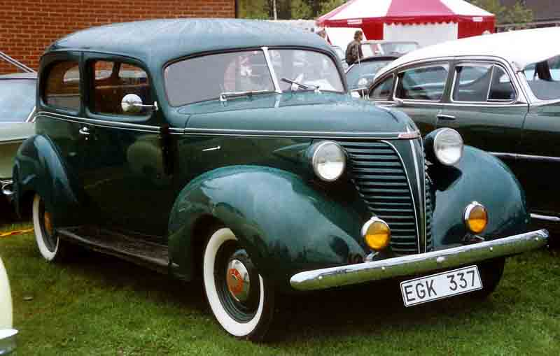 Hudson 112 Series 89 2-Door Brougham 1938